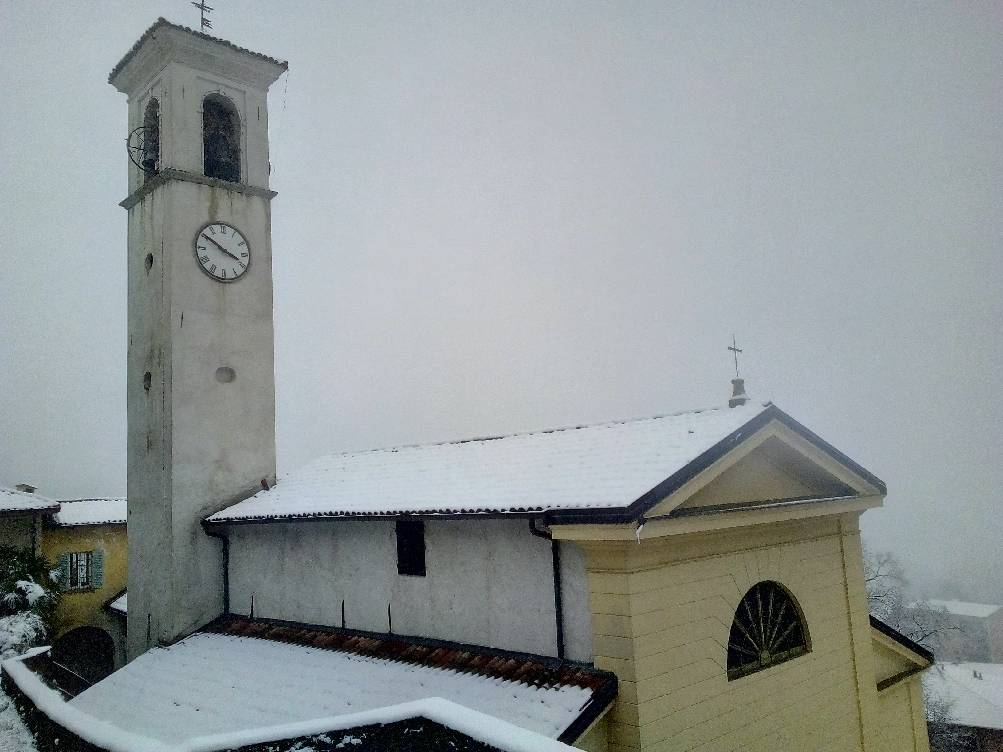 San Giovanni Battista's Church Casciago